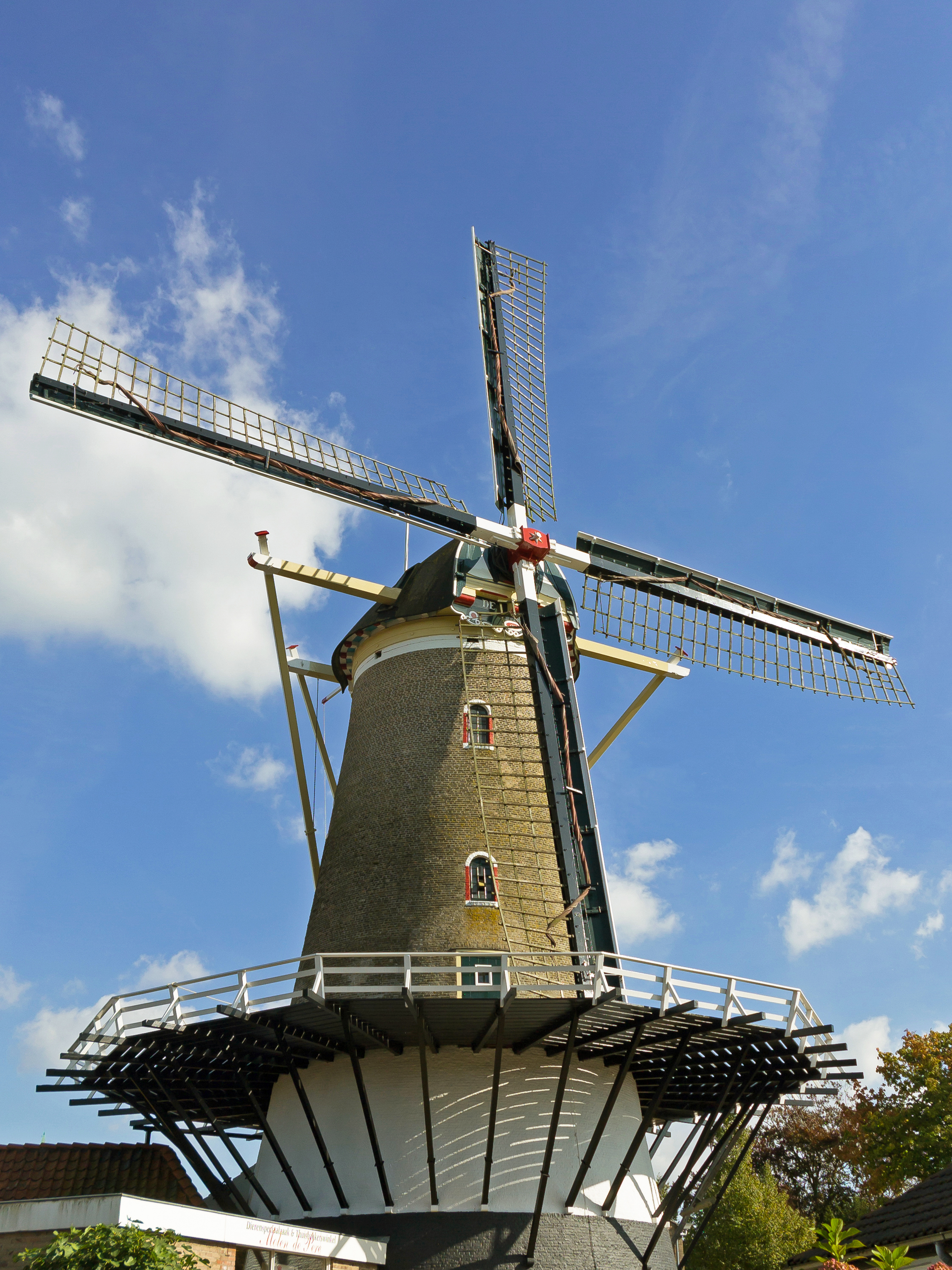 Oost-Souburg, windmill: korenmolen De Pere